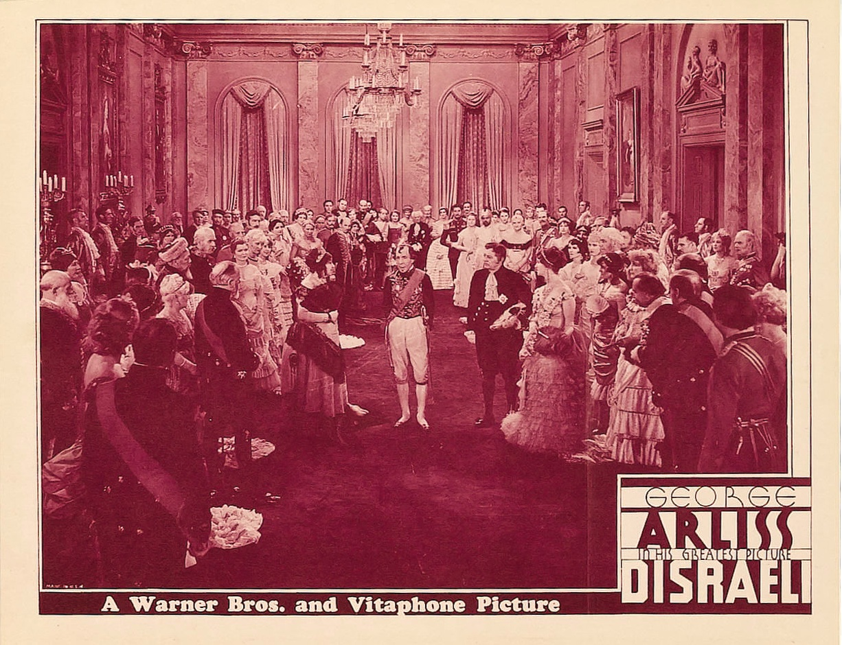 Disraeli is a 1929 American historical film directed by Alfred E. Green, released by Warner Brothers, and adapted by Julien Josephson and De Leon Anthony from the 1911 play Disraeli by Louis N. Parker. This is a contemporary lobby card for the film that clearly has no copyright notice, thus in the public domain.